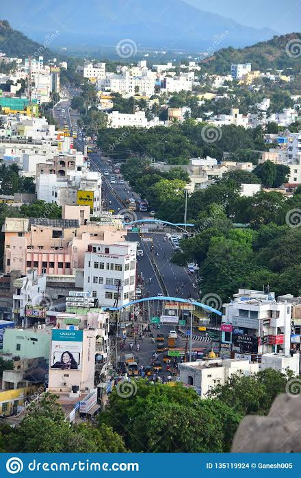 taken near thirunchengode